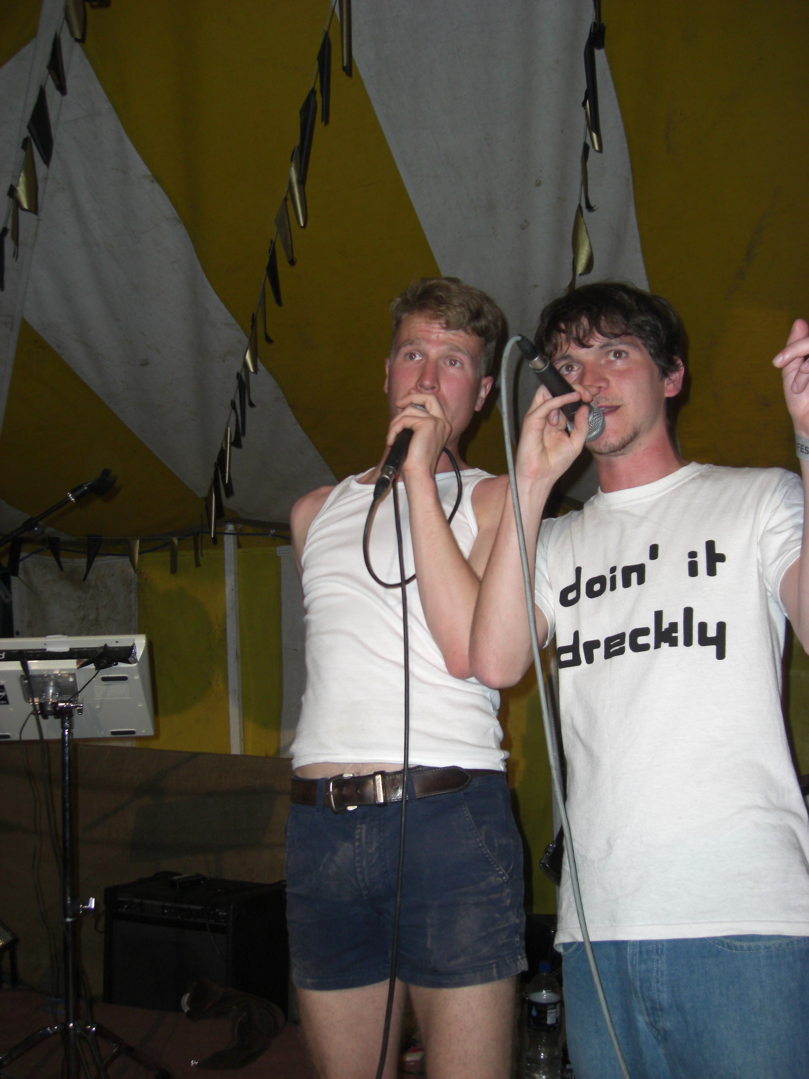 Hedluv + Passman doing it dreckly at Farmfest, Somerset